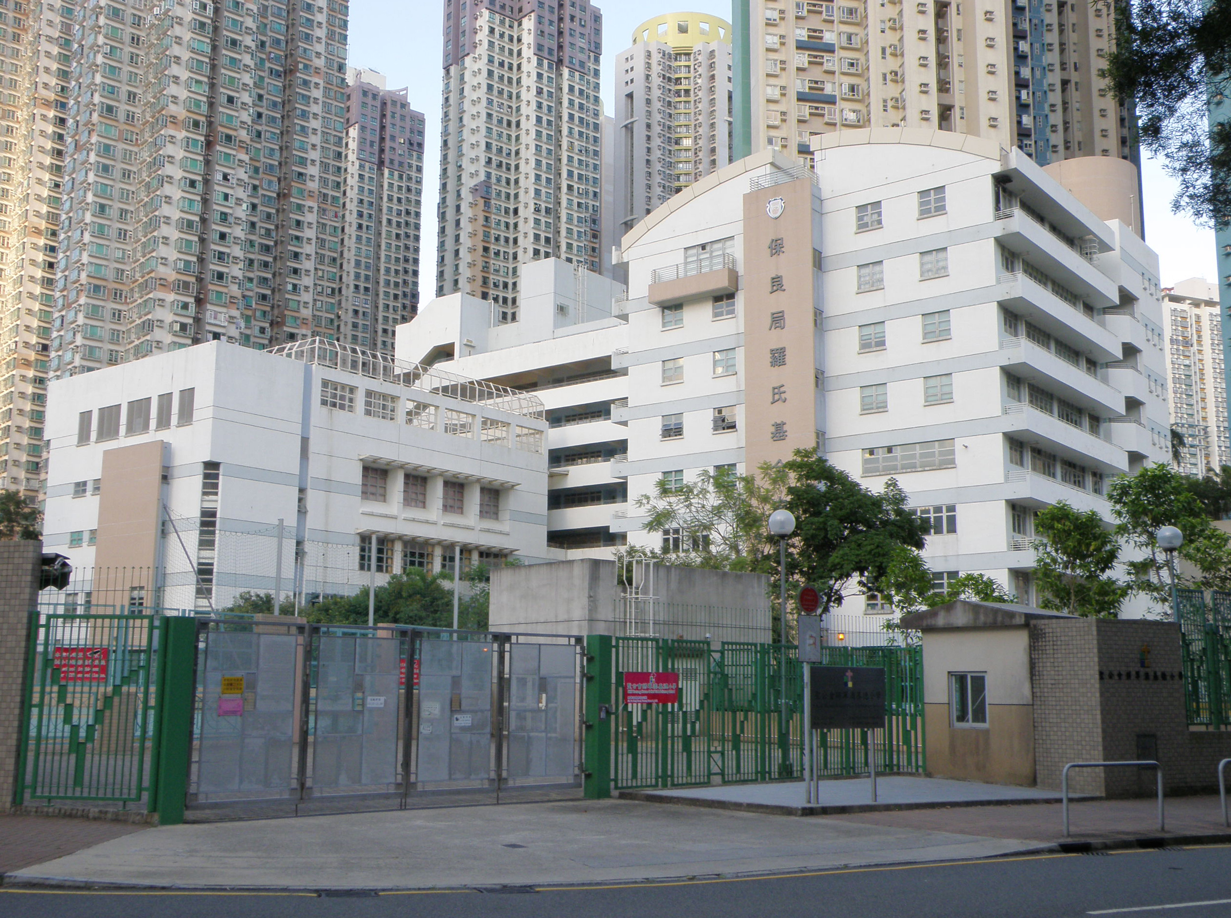 Po Leung Kuk Laws Foundation College in Tseung Kwan O, Hong Kong.